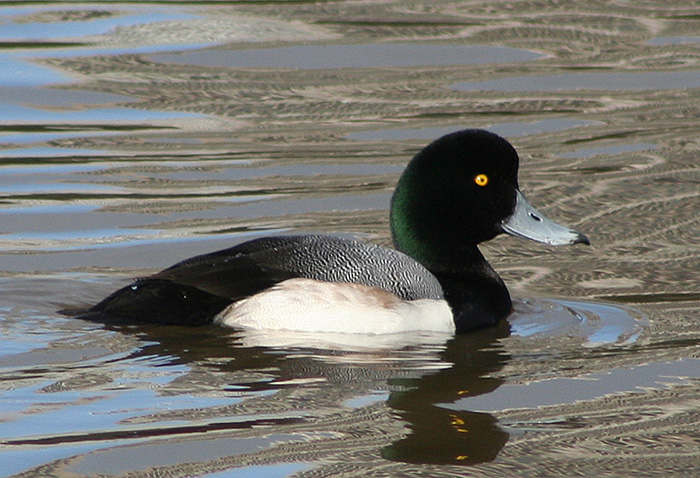 Male Greater Scaup (Aythya marila) taken at Lake Merritt in Oakland, California.